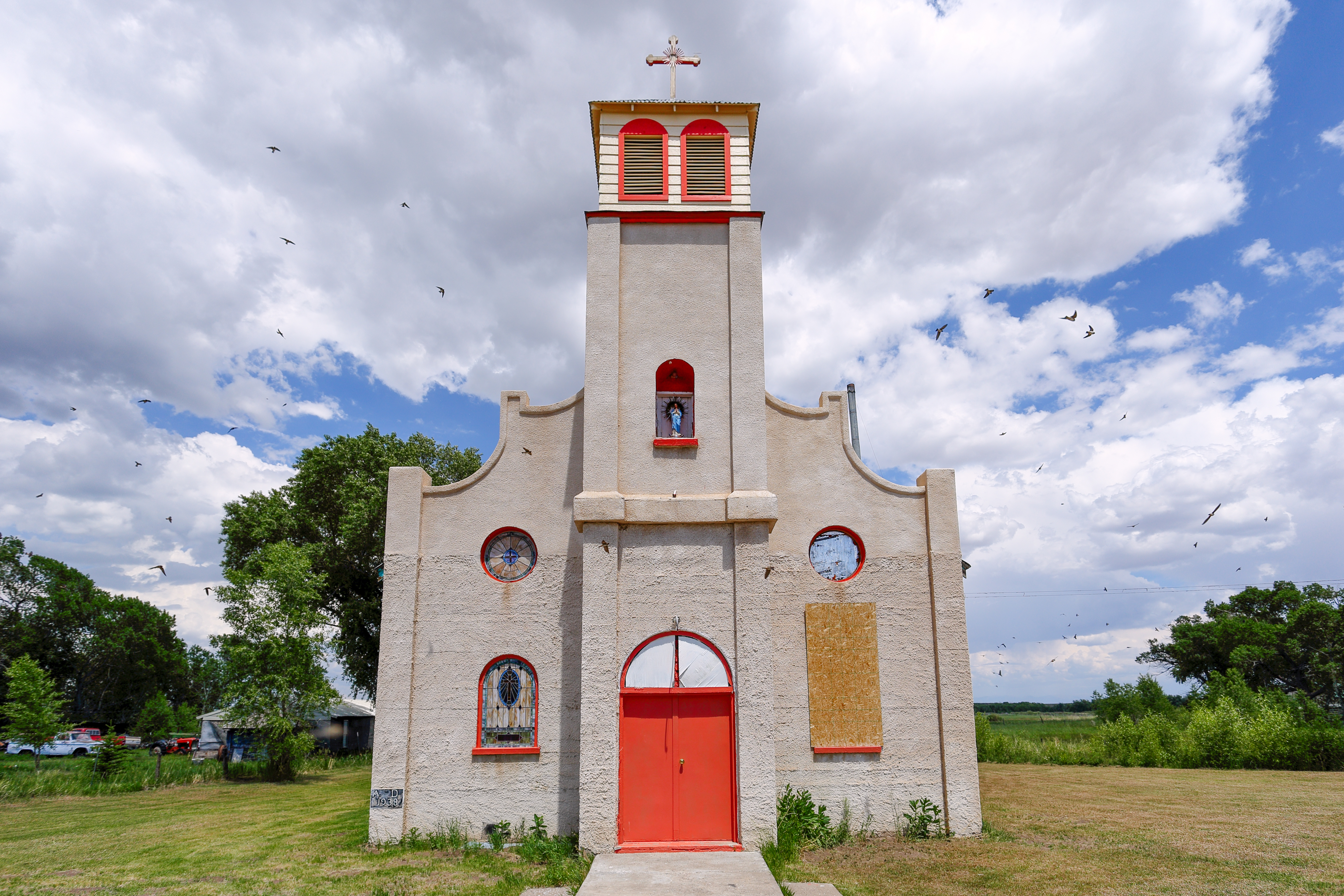 San Cayetano San Nepmuceno - Ortiz, Colorado, 2016